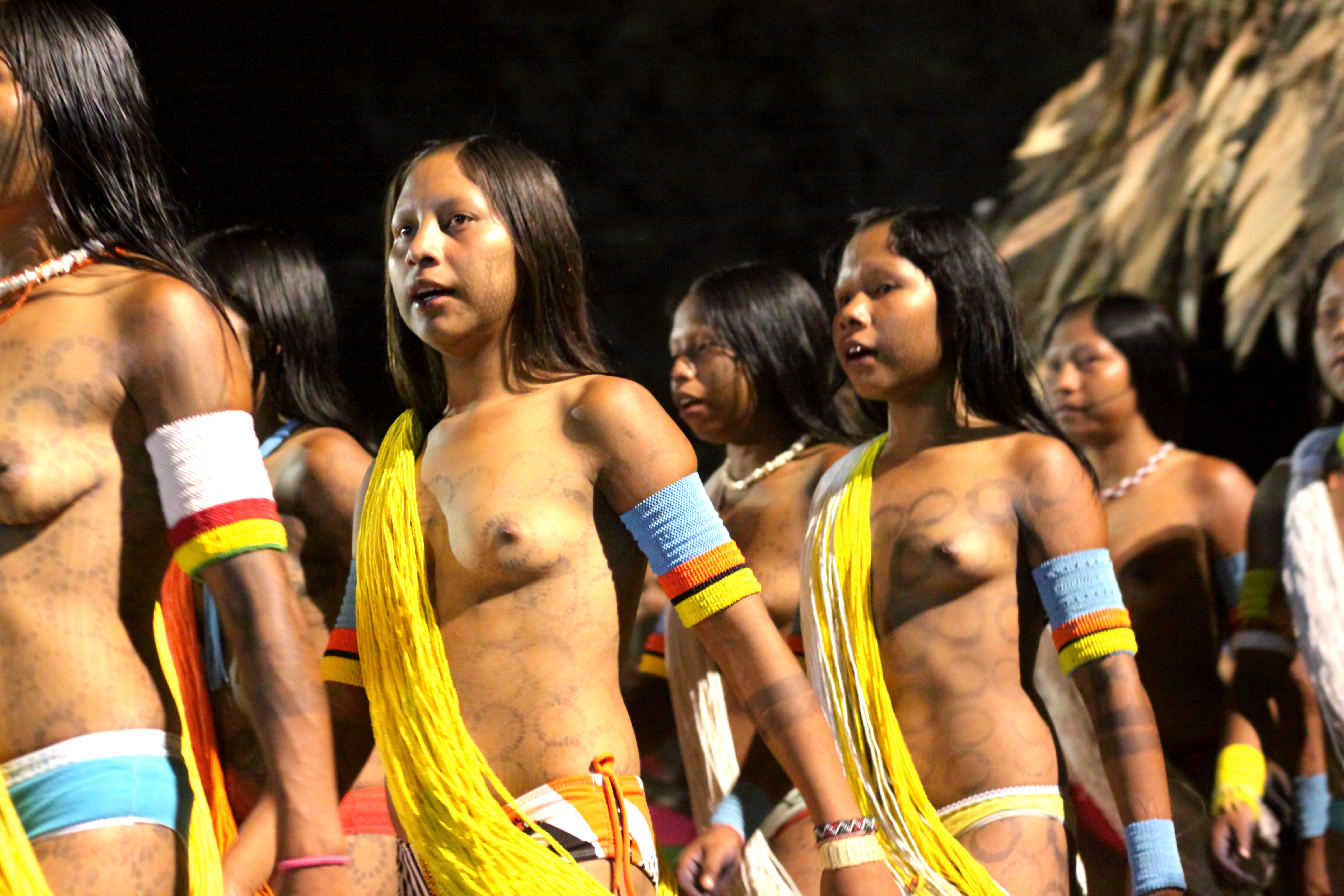 young indian Kayapo from south america, Pará State, Brasil